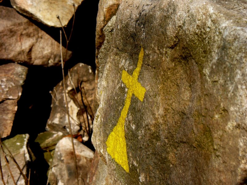 Sign of the Papal Tourist Route on the Silesian Papal Tourist Route (Poland)